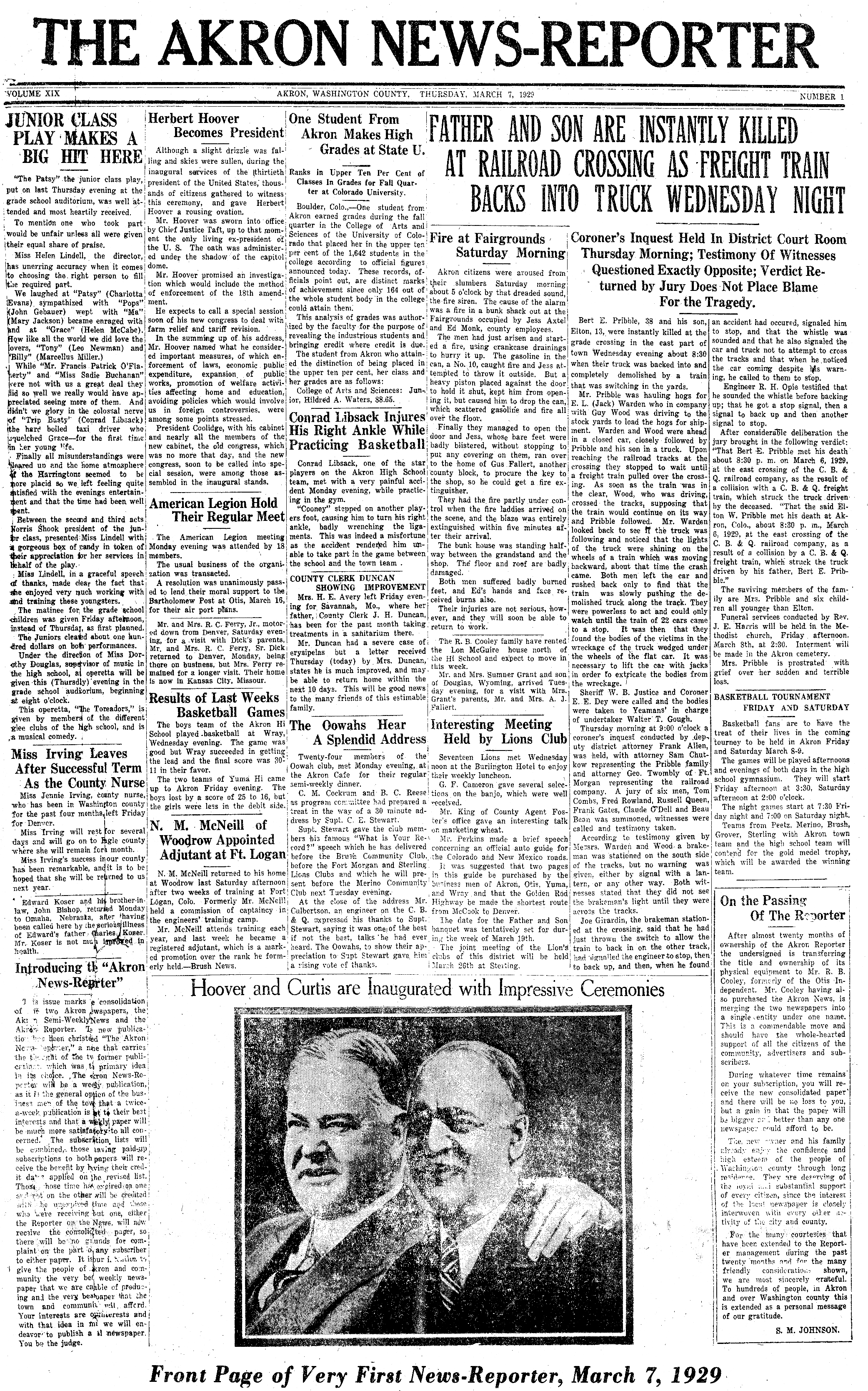 Reproduction of the first edition of the Akron (Colorado) News Reporter 28 Feb 1929